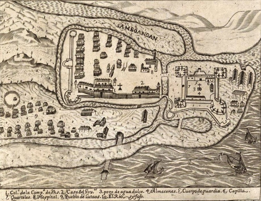 Extract from Carta Hydrographica y Chorographica de las Yslas Filipinas (1734) illustrating a map of Saboangan (now called Zamboanga City) in Mindanao, Philippines. The fort, named Fort Pilar, is now a museum. Colegio dela Compañia de Jesus - School of the Jesuits (Society of Jesus) Casa del Gobernador - Governor's House Pozo de agua dulce - fresh water well Almacenes - warehouses Cuerpo de guardia - Civil Guard headquarters Capilla - Chapel Quarteles - barracks Hospital - infirmary Pueblo de Lutaos - Native Lutao people's village El Rio - the river